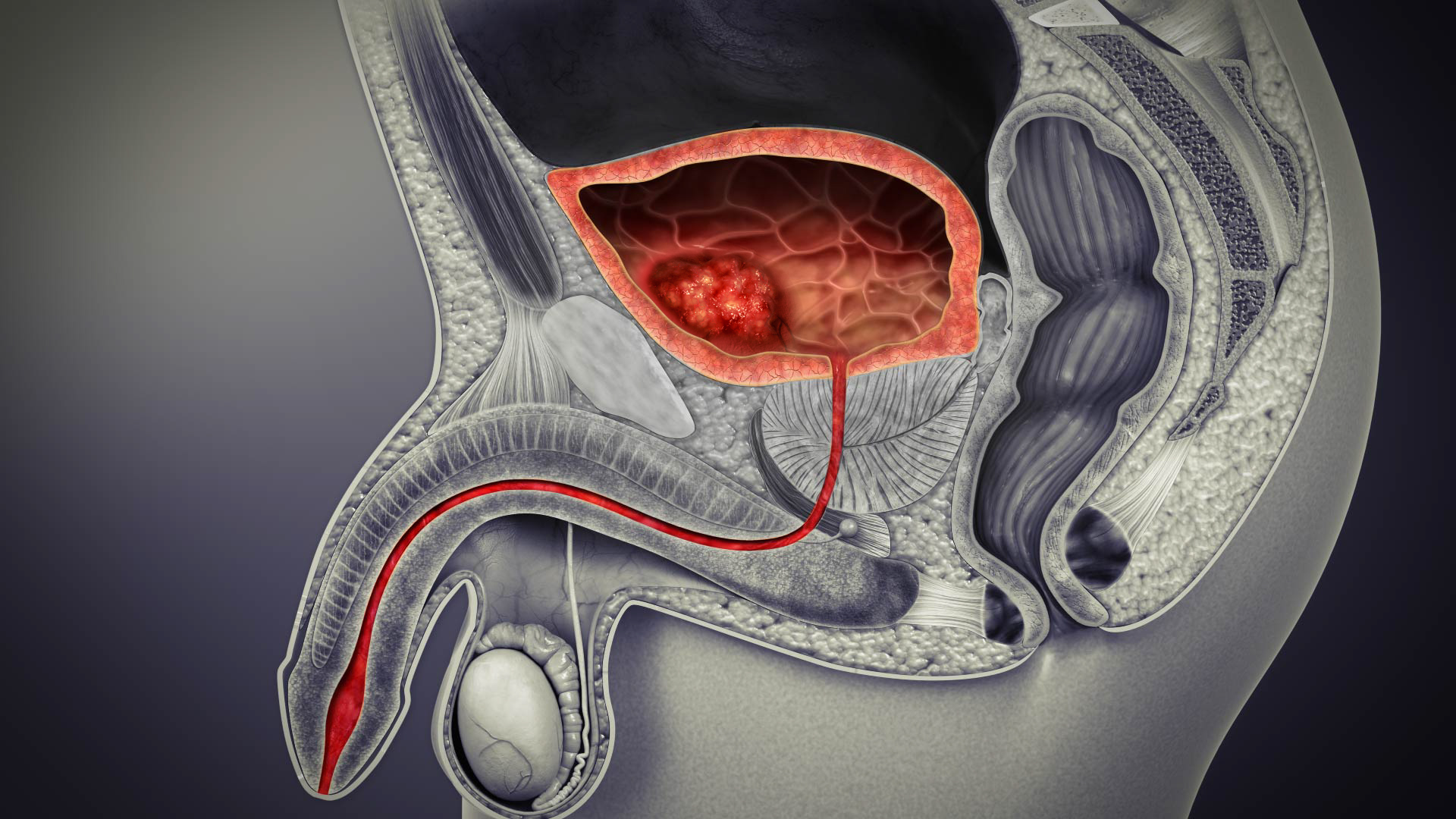 3D medical animation still showing urinary bladder cancer.